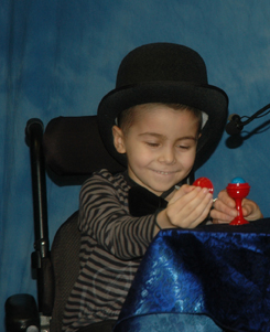 Client from My Magic Hands performing at The Big Show at Holland Blooview Kids Rehabilitation Hospital for Children.